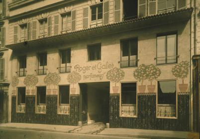 Front of Roger & Gallet, photographed by Druet